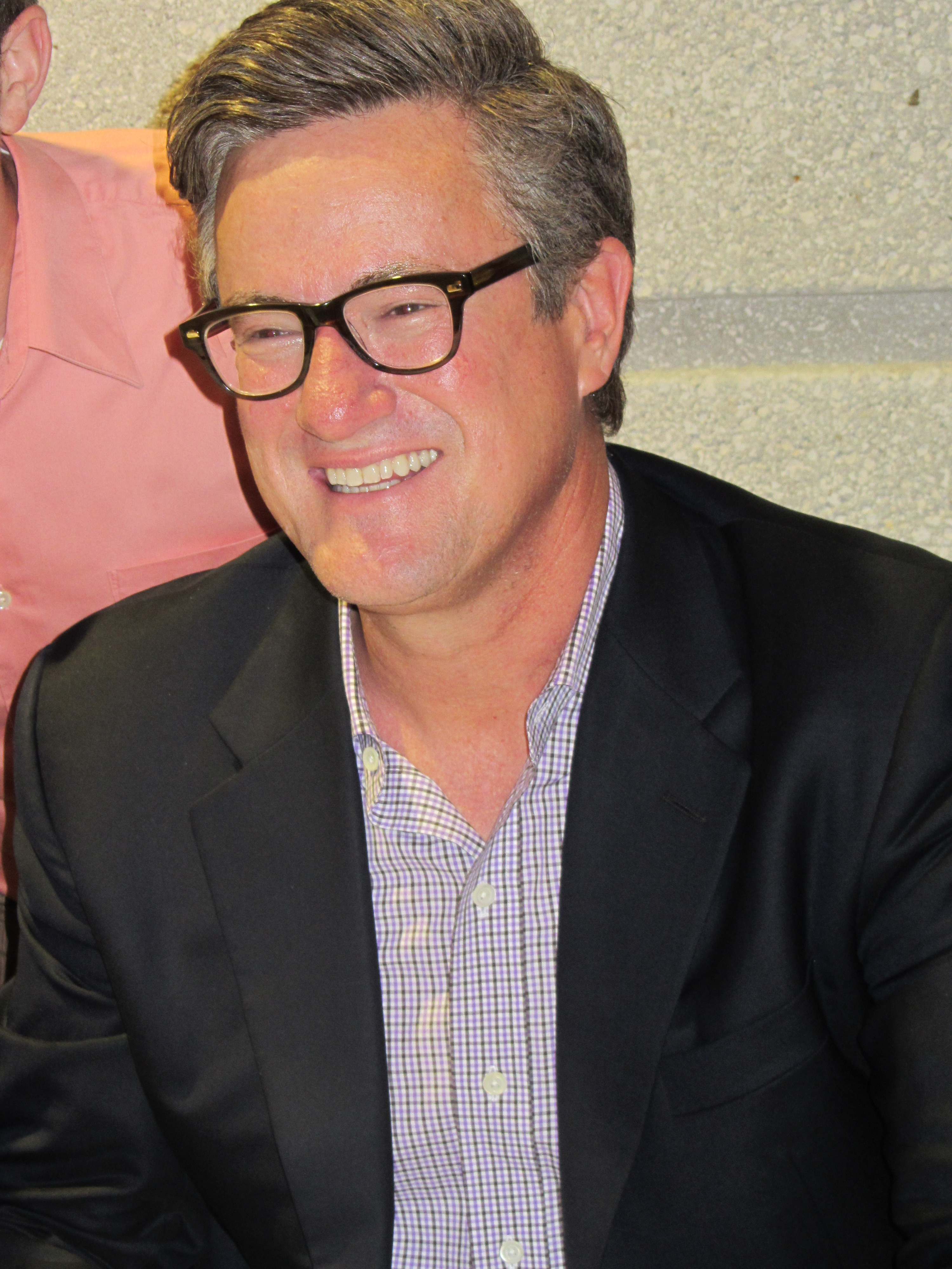 Joe Scarborough at the Miami Book Fair International 2013